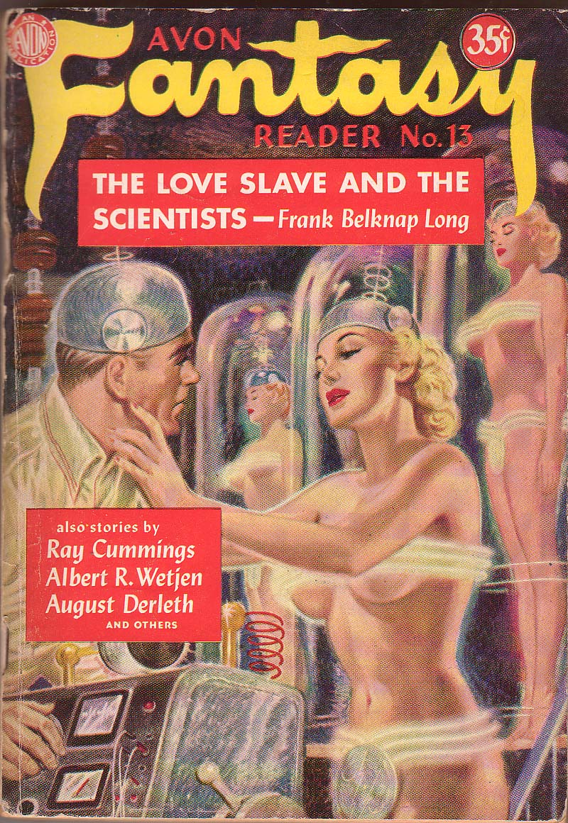 Cover of the fantasy fiction magazine Avon Fantasy Reader no. 13 (1950) featuring "The Love Slave and the Scientists" by Frank Belknap Long.